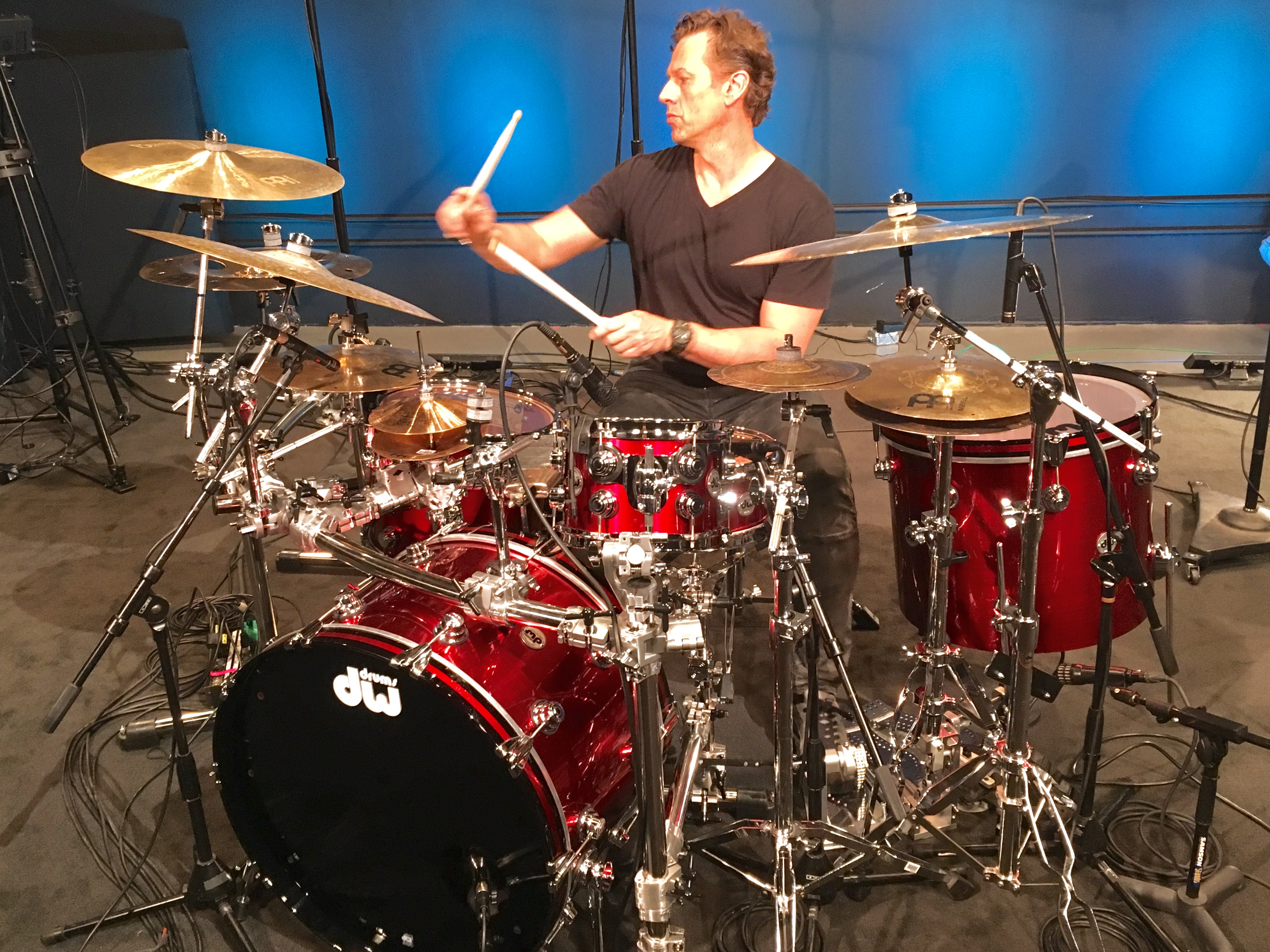 Thomas Lang Performing Live at Drum Channel, California 2018